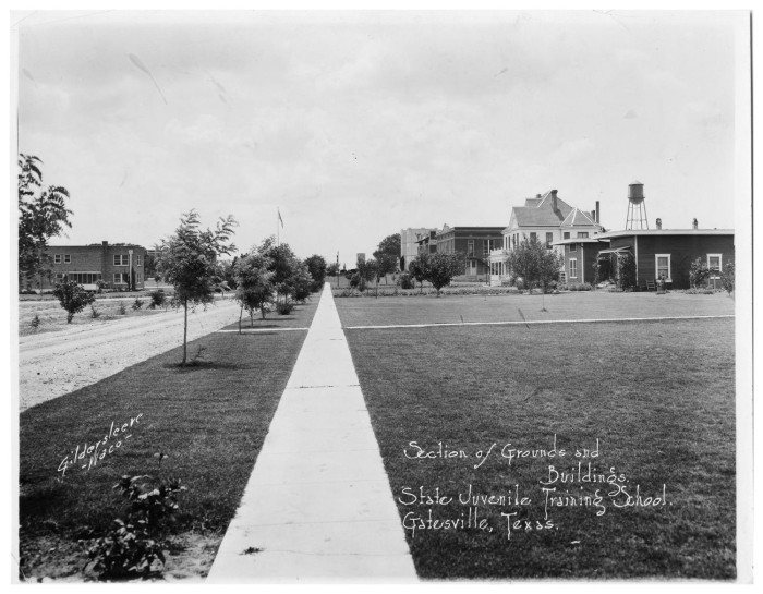 Gatesville State School, known at the time as the Texas State Juvenile Training School